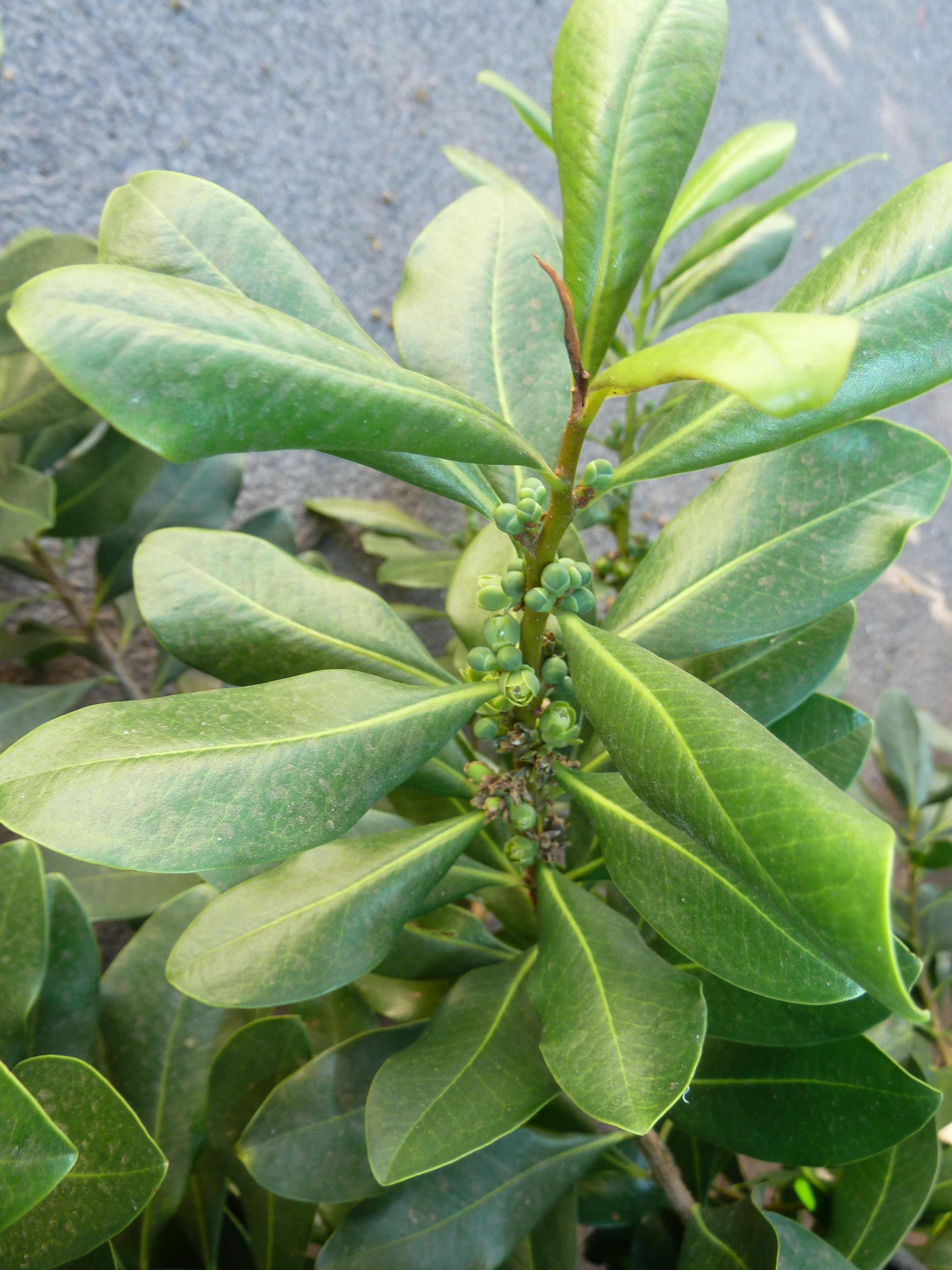 Foliage and flowers of a Pepper-bark tree in the Manie van der Schijff Botanical Garden at the University of Pretoria